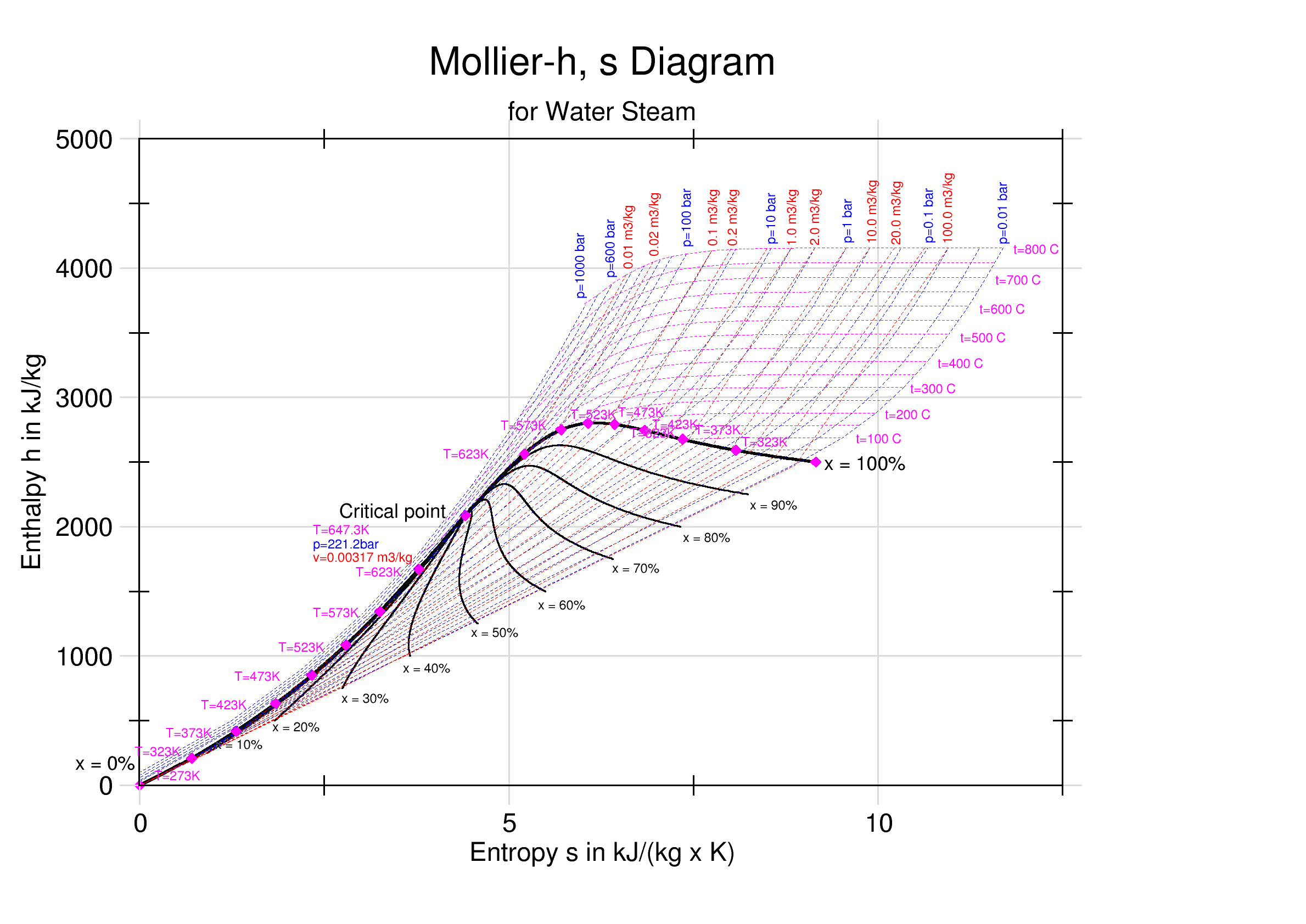 Mollier H-S (enthalpy-entropy) diagram for water and steam, English version